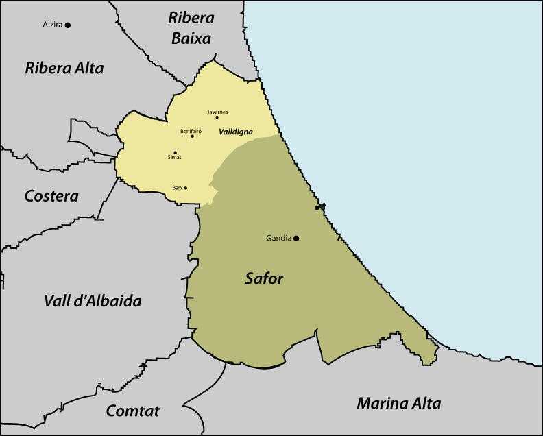 Location of the Valldigna Sub-region into the Safor Region, Land of Valencia.